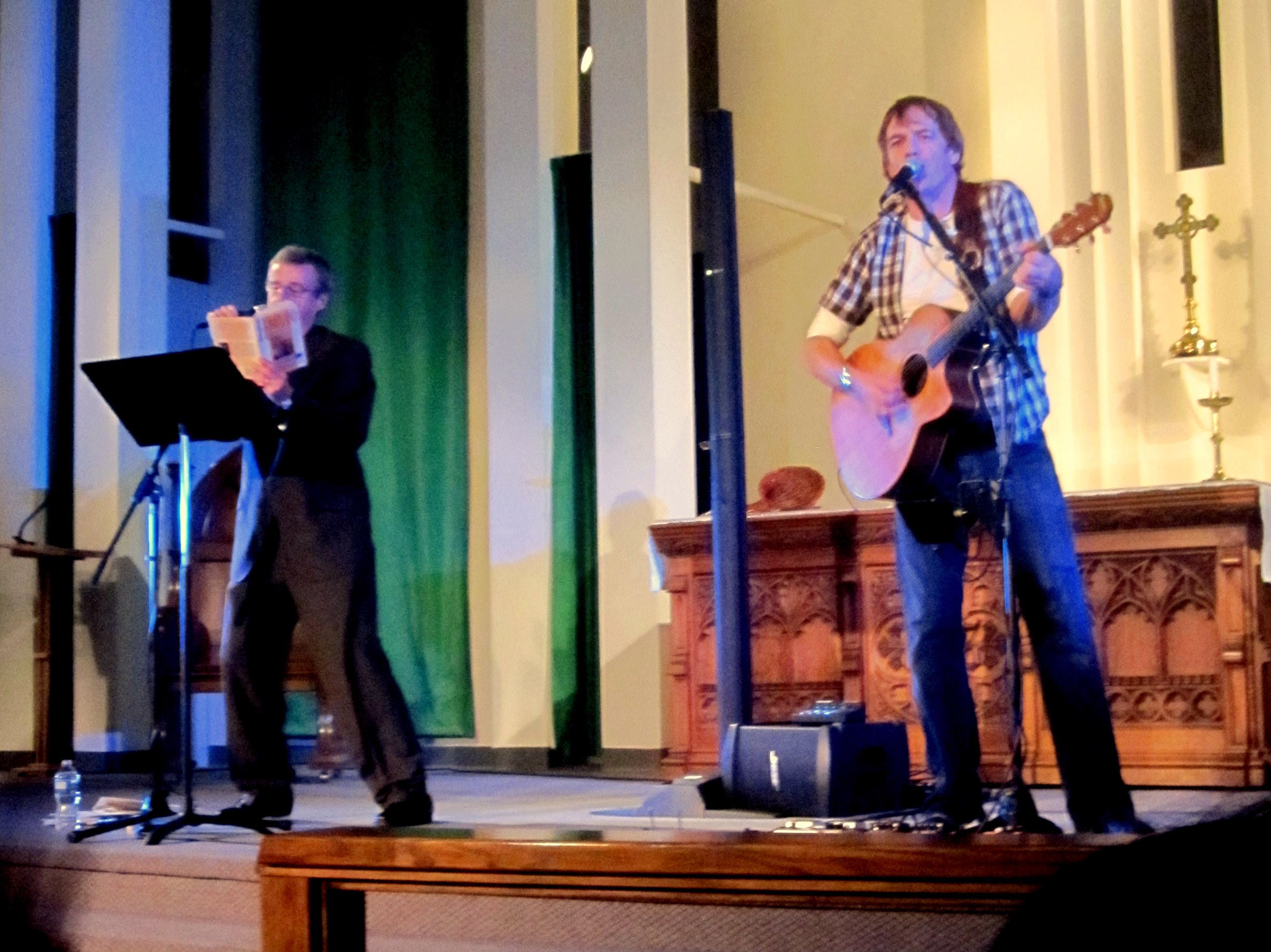 Wales singer-songwriter Martyn Joseph and lyricist Stewart Henderson perform together at St. Andrew's Church in Vancouver, British Columbia, on October 12, 2011.